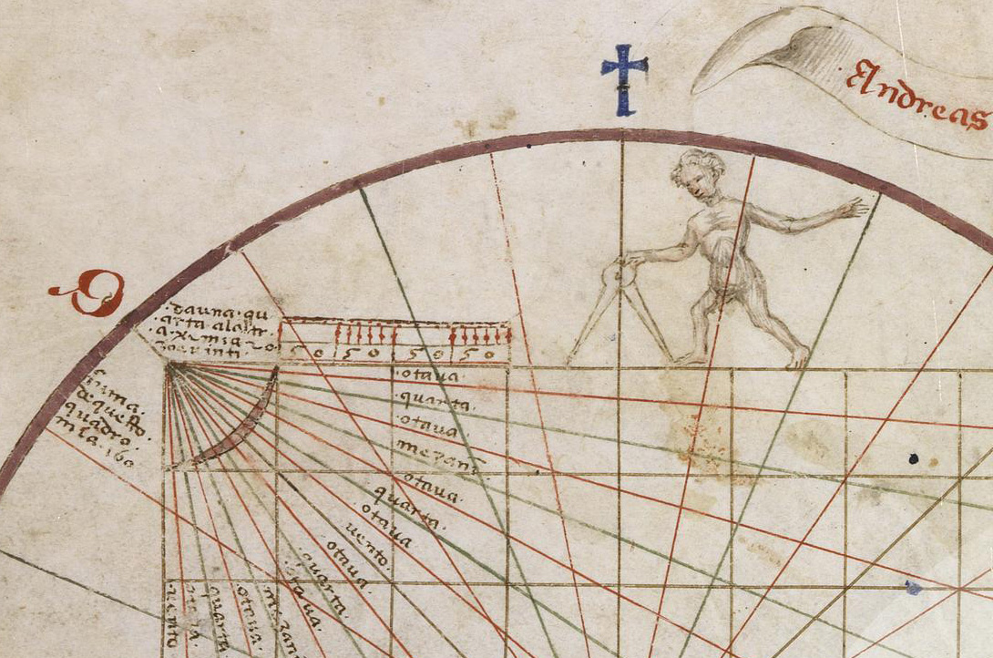 Detail from the tondo e quadro ("circle and square") of the 1436 atlas of Venetian cartographer Andrea Bianco. Detail shows the upper-left corner of the square grid. There is a distance bar scale, with two different scales. The top bar (with tiny dots) measures a unit of the square grid at 20 miles (each dot is 1 mile). The bottom bar (with lines) measures a unit of the square grid at 100 miles (each vertical red line is 10 miles). Bianco notes that by using the 20m-per-unit scale the 8 x 8 grid quadro will have a total length of 160 miles. Notice also that Bianco has sixteen rays emanating from the corner, implying he is using half-quarter winds #eighth winds, otava, 5.625 degrees. The 1436 Atlas is held by the Biblioteca nazionale Marciana, Venice.